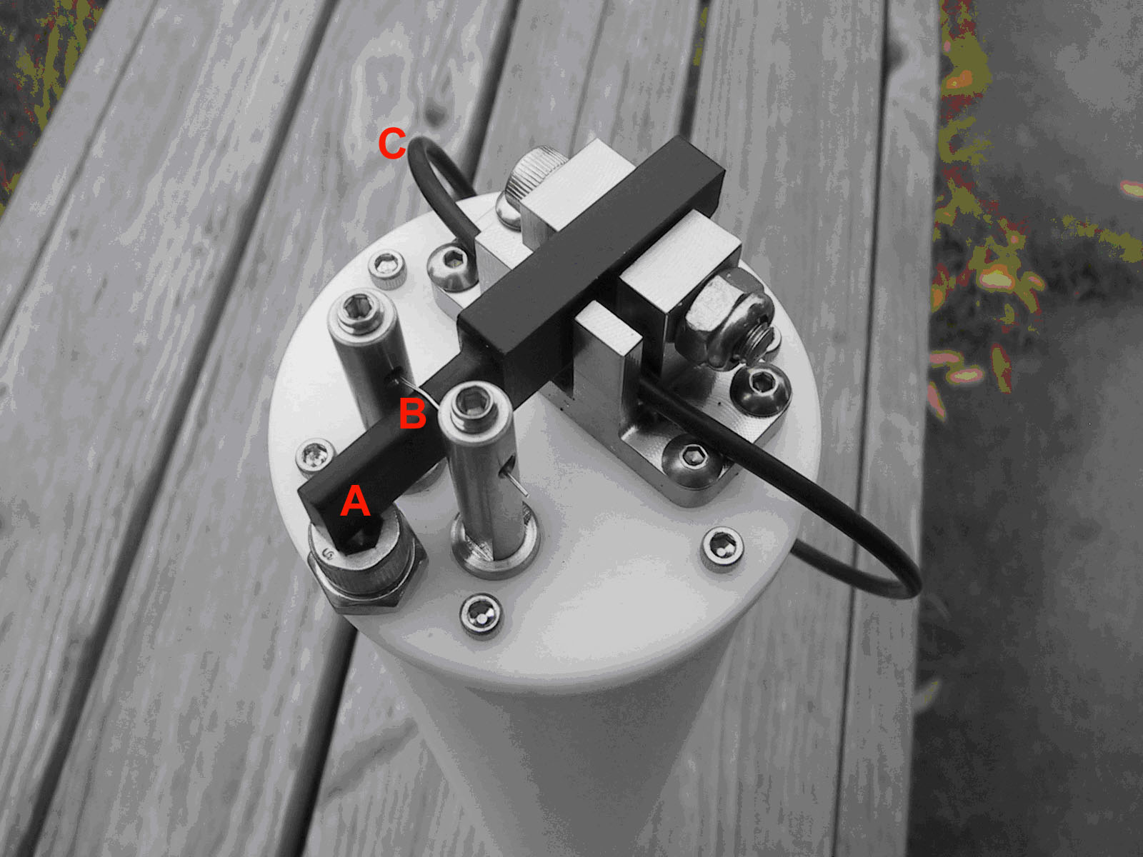 Detail of the fusible link release mechanism of the Desert Star Systems ARC-1 acoustic release. When fusible wire (B) burns, lever (A) can open freely, setting free anchor line attachment (C).